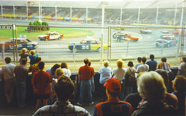 Wimbledon Stadium. Used for greyhound racing (outer track) and the Stock cars (inner track).